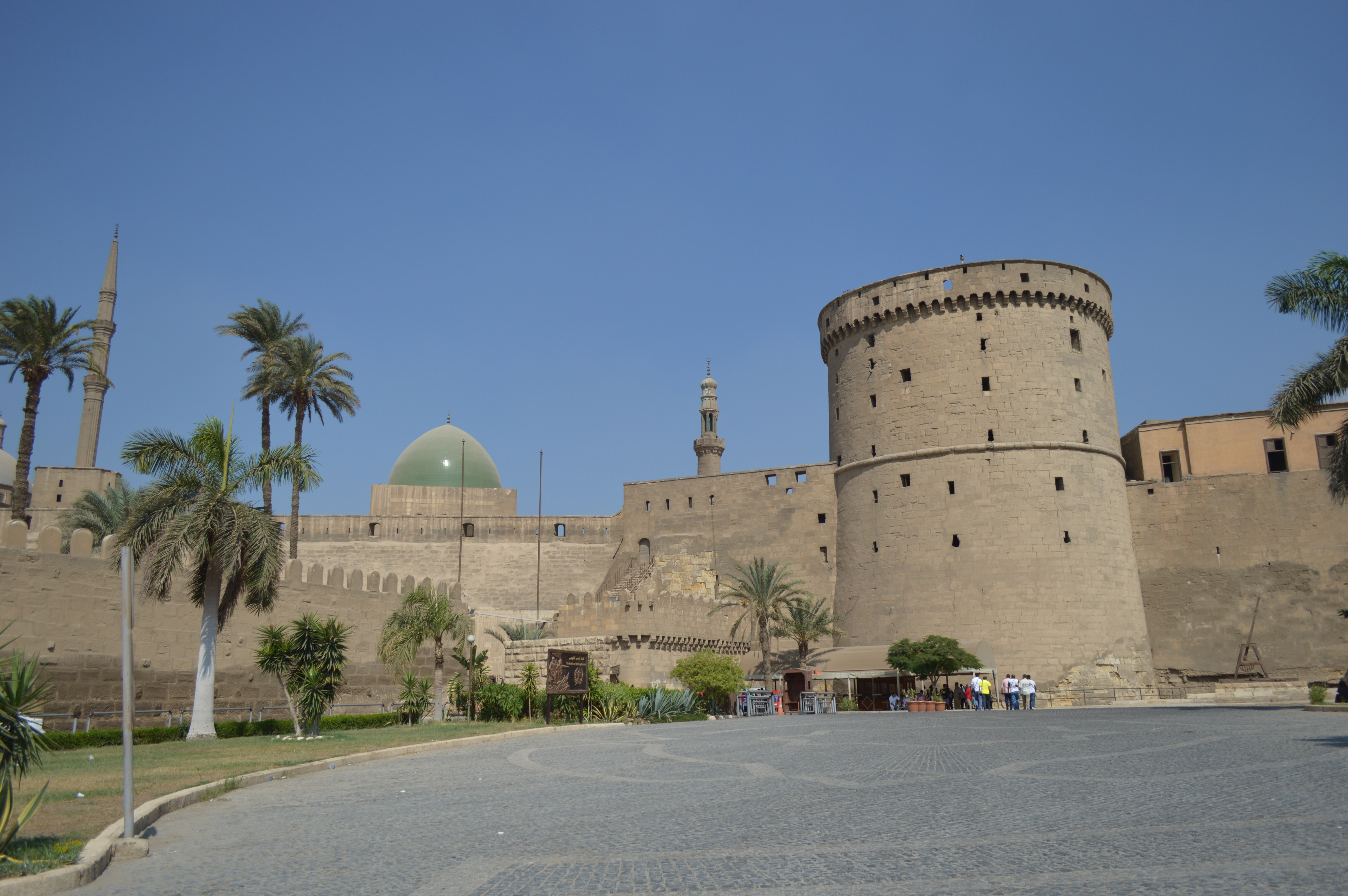 all view of Citadel of Salah el deen al ayoubi